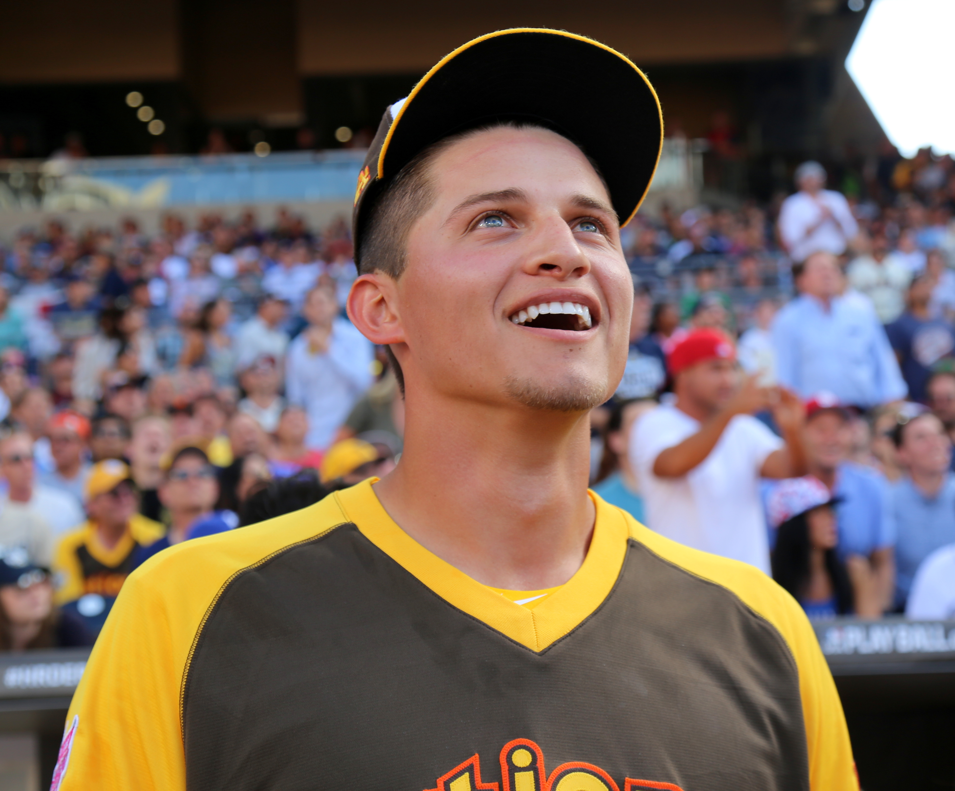 Cory Seager is in awe of Giancarlo Stanton's performance during the T-Mobile #HRDerby.